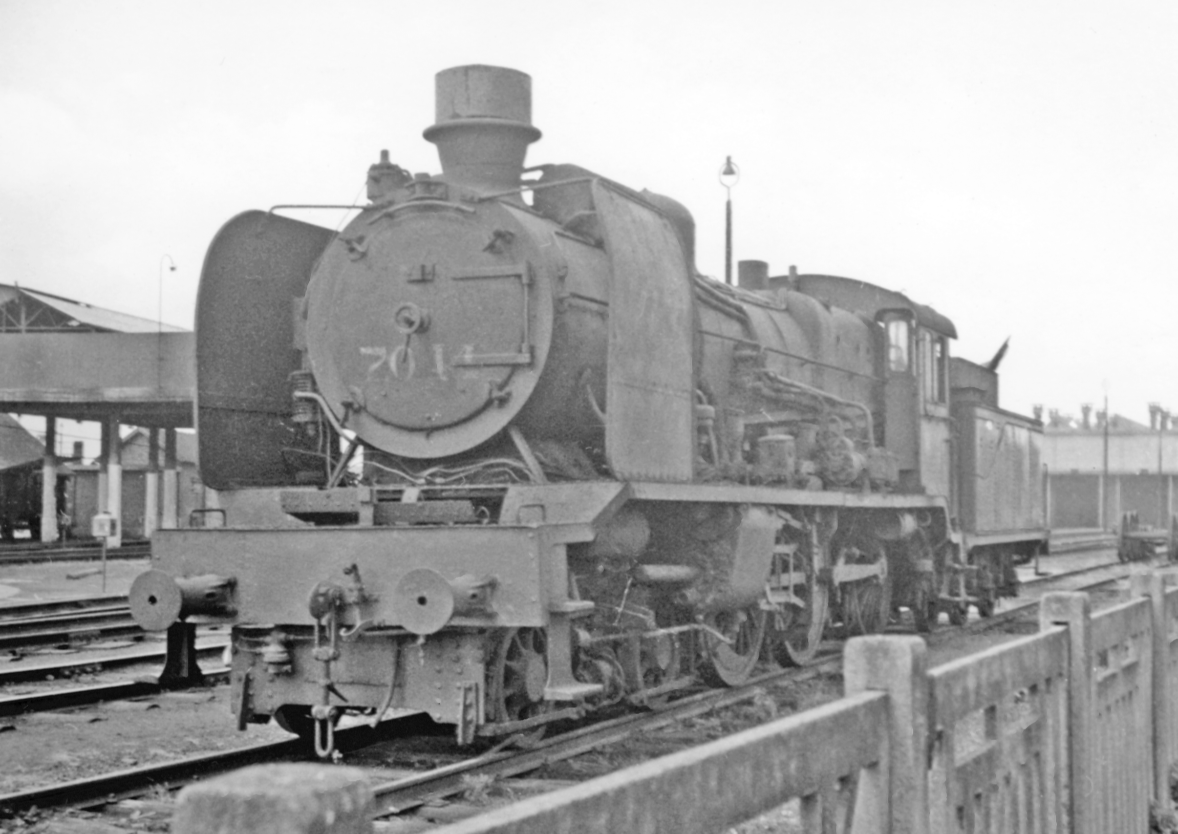 Class 70 4-6-0 at Tournai station